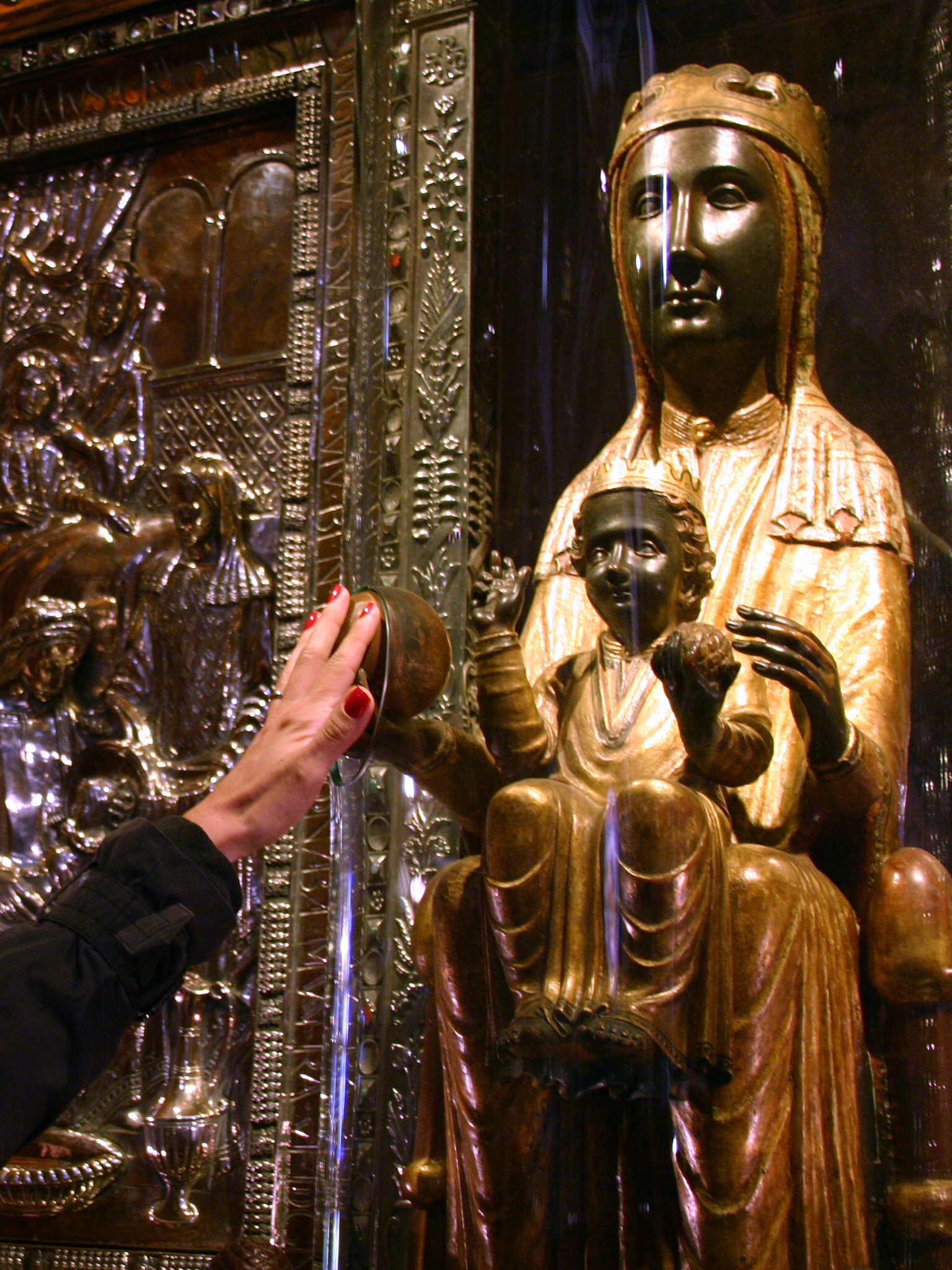 Interior of the Basilica of Montserrat